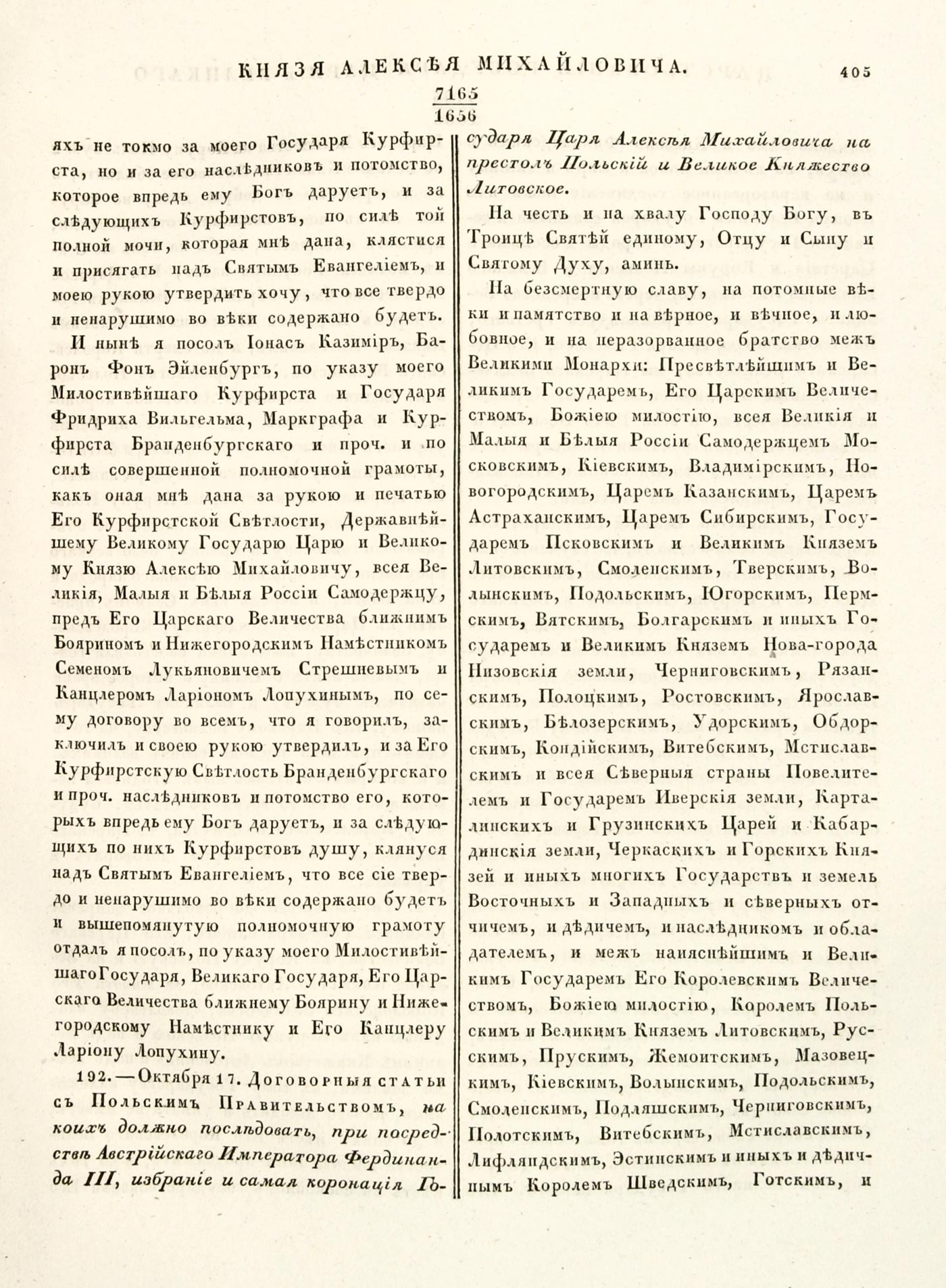 Complete Collection of Laws of the Russian Empire. Collect. 1. Т.1 nr 192, 1656 AD